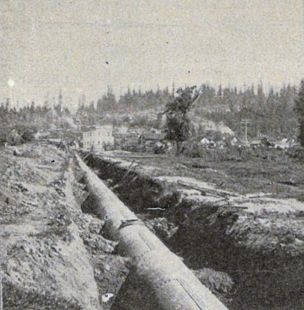 "Completed section of steel pipe near Renton" from brochure Seattle and the Orient (1900), one of three photos collectively captioned "Cedar River pipe line. / Showing three sections of work being done by Pacific Bridge Co."